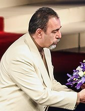 Morteza KheyrAbadi